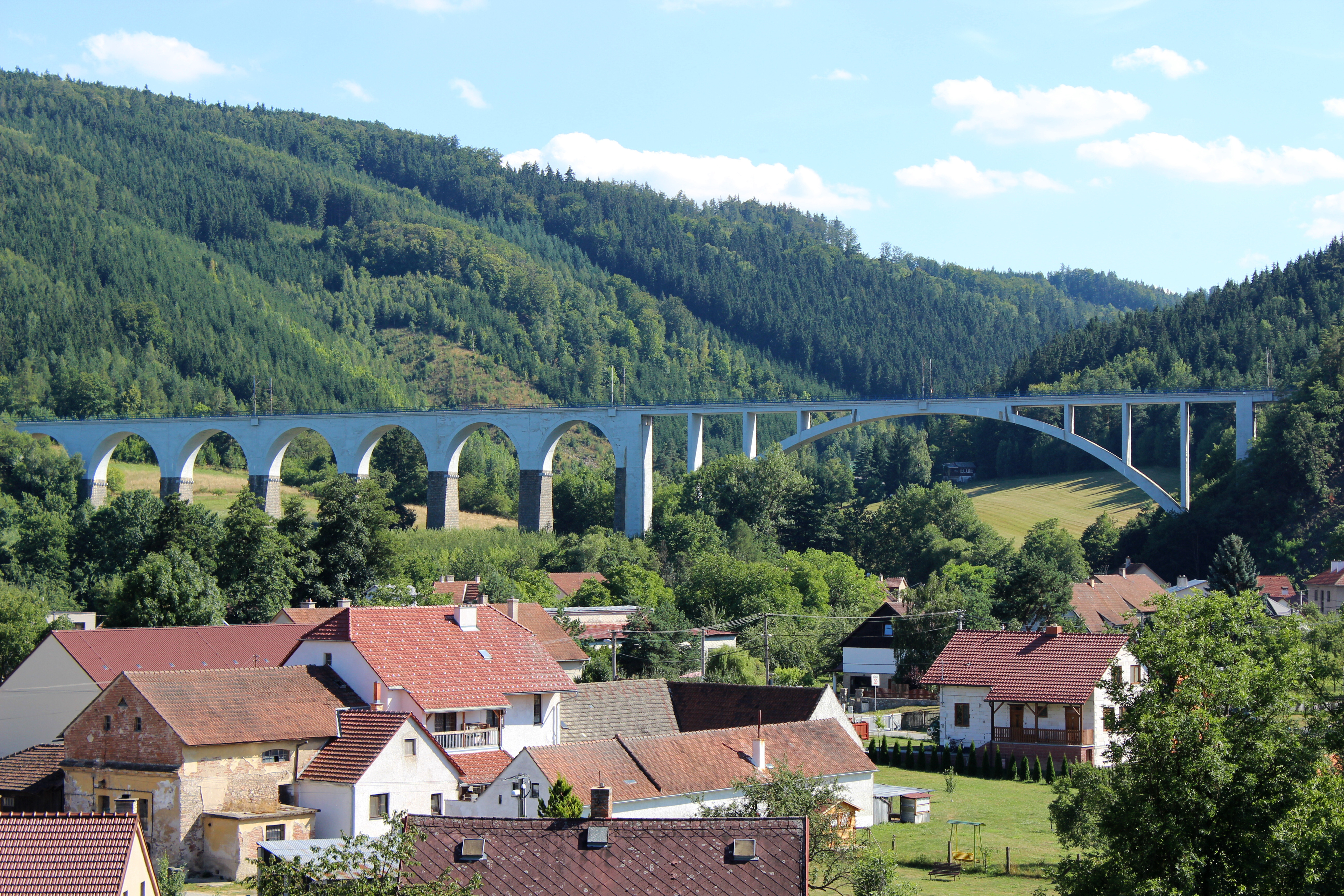 Freedom bridge, Dolní Loučky, Brno-Country District, Czech Republic This photograph was taken with a DSLR from WMCZ's Camera grant.